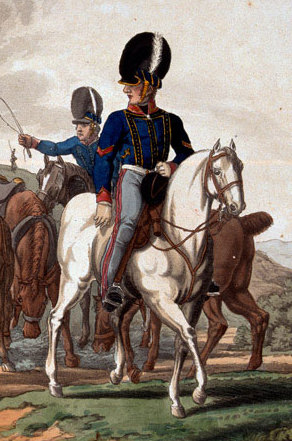 The Corps of Artillery Drivers from Charles Hamilton Smith's Costumes of the Army of the British Empire, according to the last regulations 1812 published by Colnaghi and Company, 1812-1815.